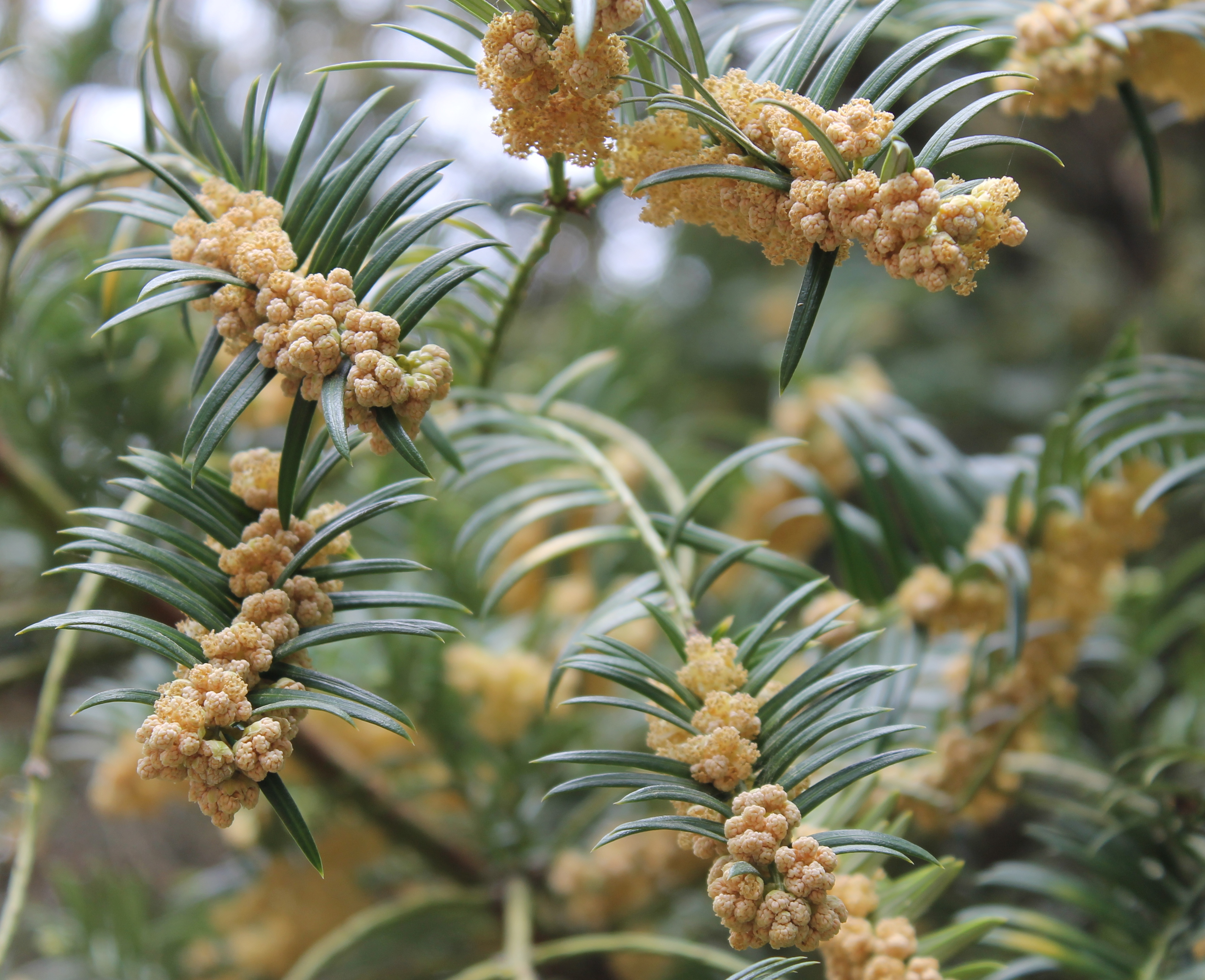 Taxus baccata. Yew leaves and inflorescences. The photo was taken in Adler arboretum "Southern Cultures" This image is related to the protected area of Russia number 2310343